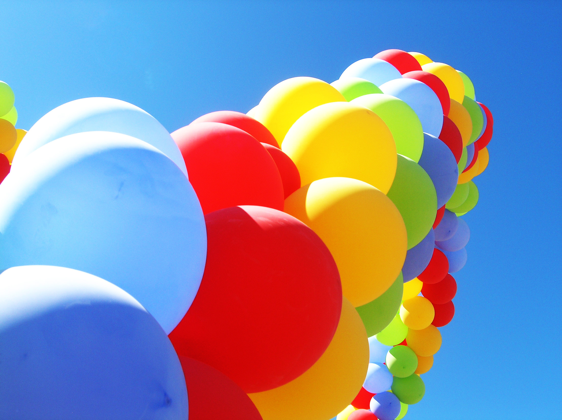 An arch of colourful party balloons.